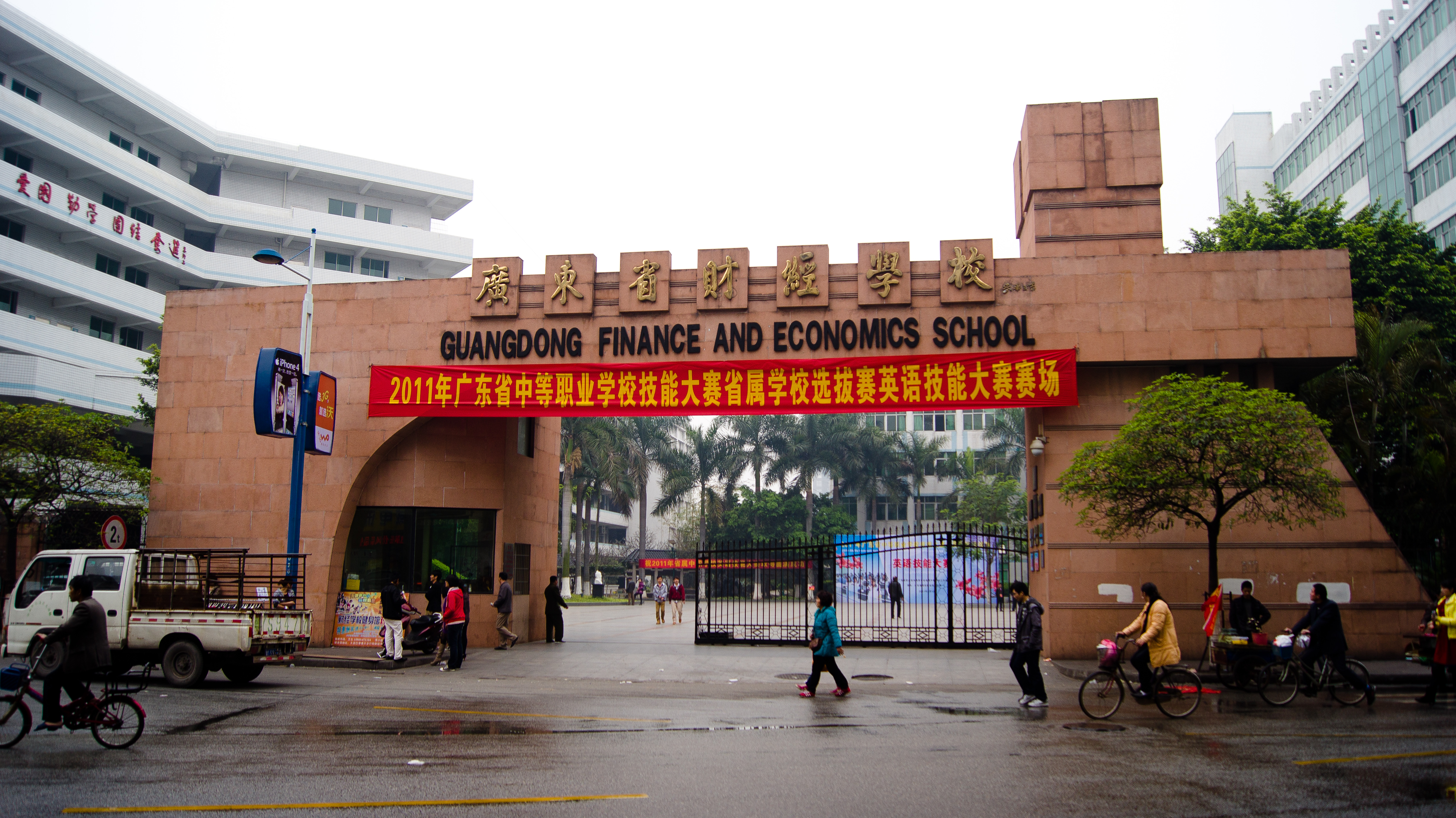 Guangdong Finance And Economics School (Guangdongsheng Caijing School), Dali Town, Nanhai District, Foshan, Guangdong, China.